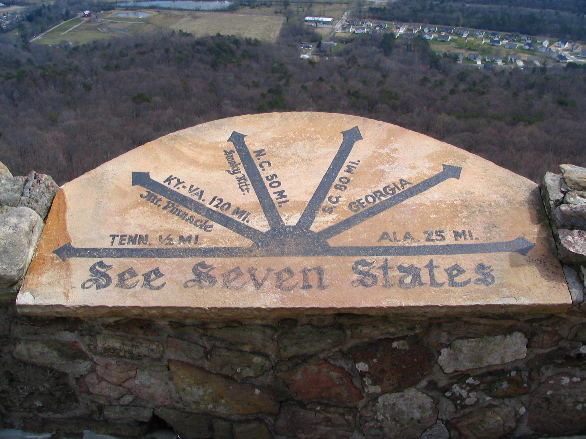 Sign at Lover's Leap at Rock City, a roadside attraction near Chattanooga, Tennessee on Lookout Mountain in Lookout Mountain, Georgia, located near Ruby Falls. Whether or not you can actually see seven states is debatable, but millions have tried. At this spot, you are in Georgia, Alabama is behind you, and the St. Elmo area of Chattanooga, TN is almost a stones throw away. Nearby mountains from both Carolinas are easy to see, but can you really see across the entire state of Tennessee to see a mountain on the Kentucky-Virginia border? Close to the top-left corner is one of the newer style Rock City barns that looks like a birdhouse.